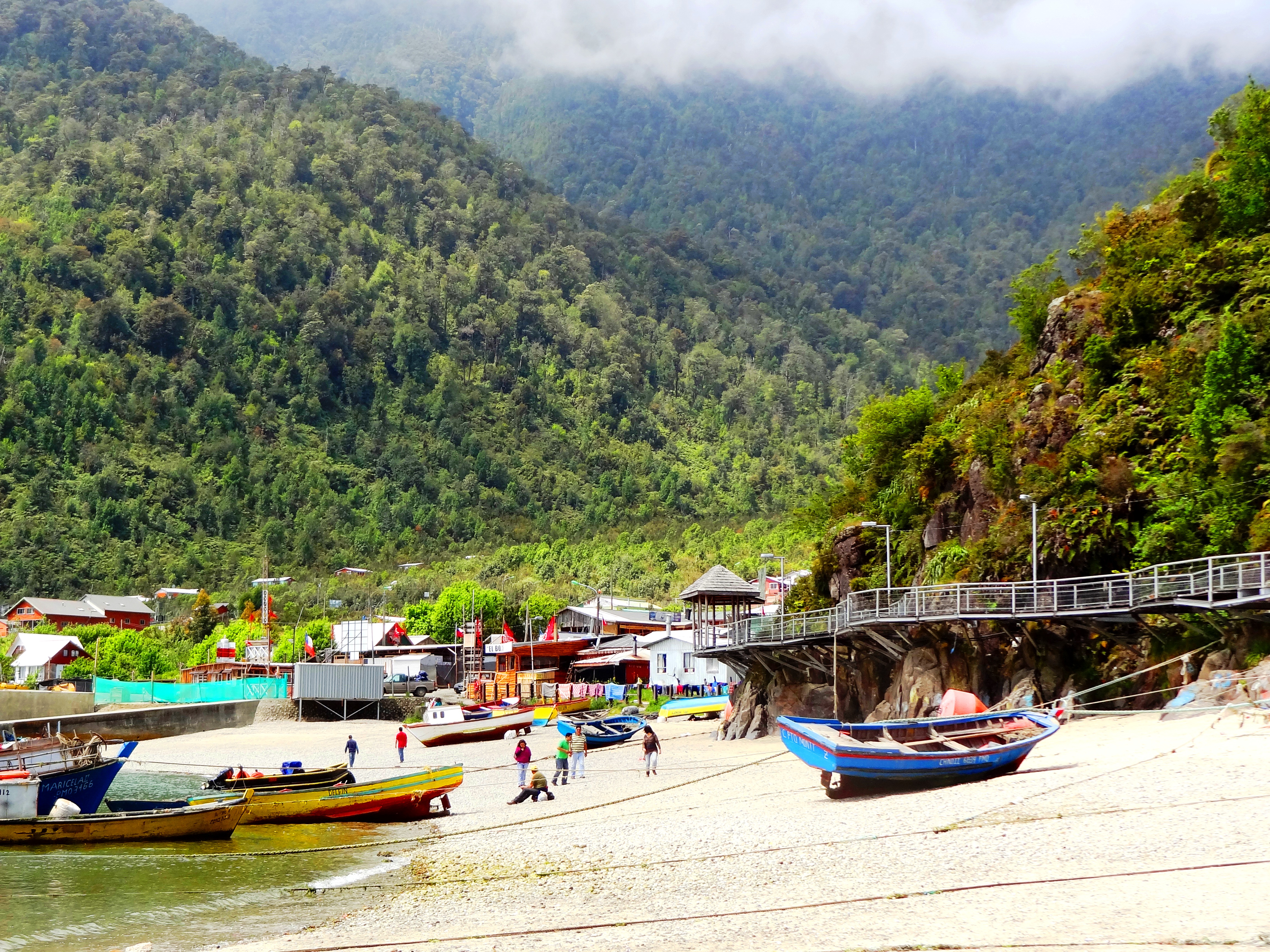 Caleta La Arena is located south east of Puerto Montt, Chile, South America. It is located approximately at latitude 42 where the road ends at the edge of the coastal Andes. At this point the road stops where you take a ferry that transports cars a bit further south where the range is not as sharp and has been able to build more road south.